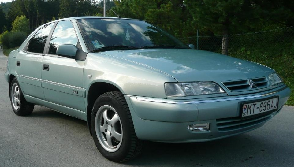 Xantia X2 HDi Seduction 1999 Limited Edition